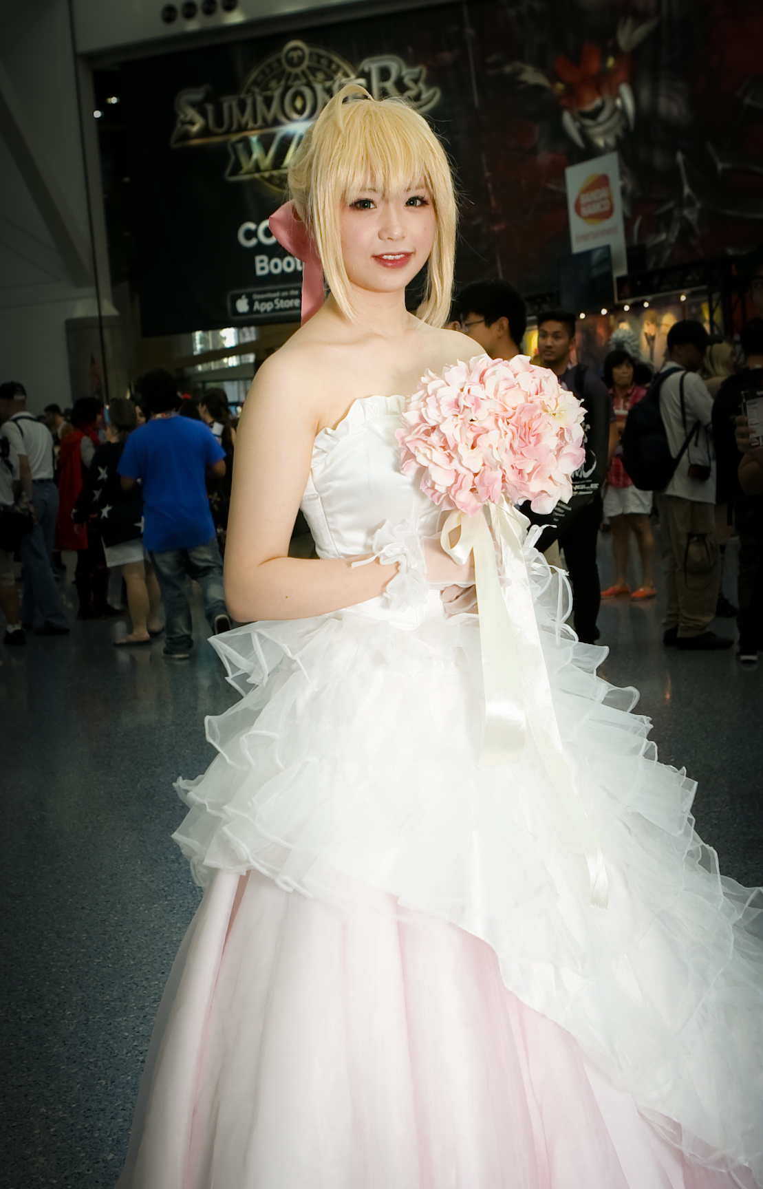 Saber (Wedding Dress version) from Fate/Stay Night. Cosplay at Anime Expo 2015